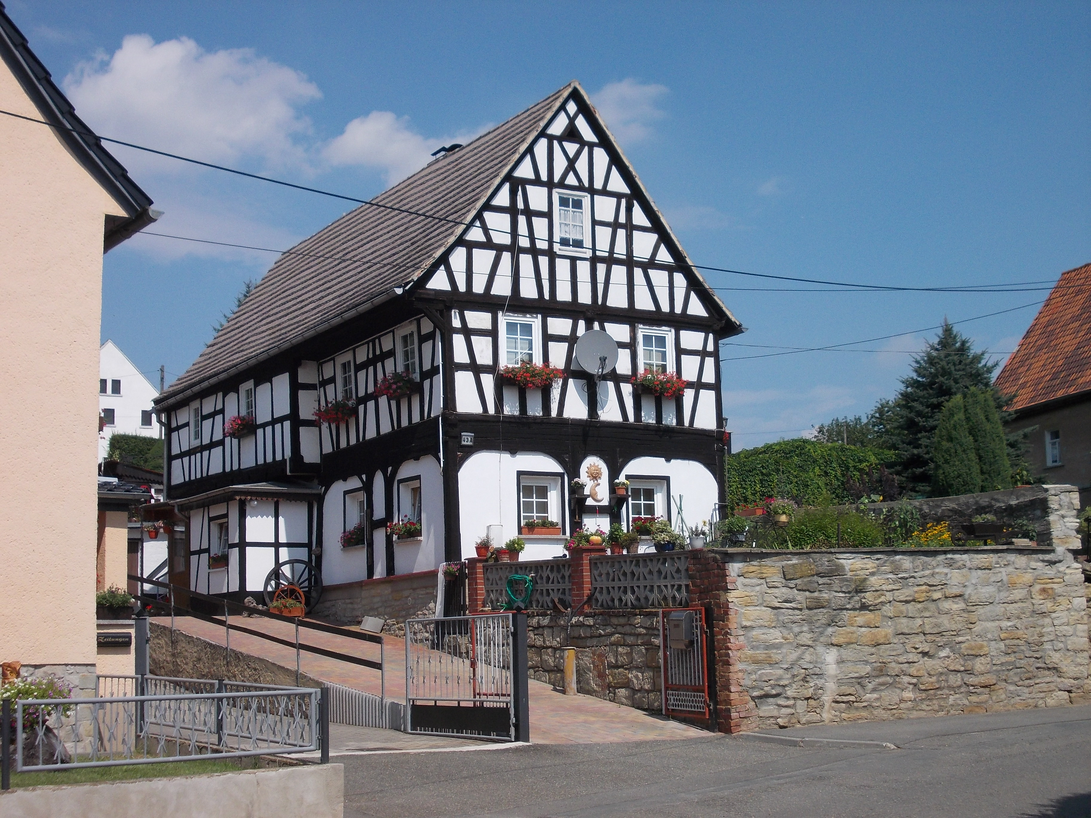 House No. 43A in Bröckau (Schnaudertal, district: Burgenlandkreis, Saxony-Anhalt)